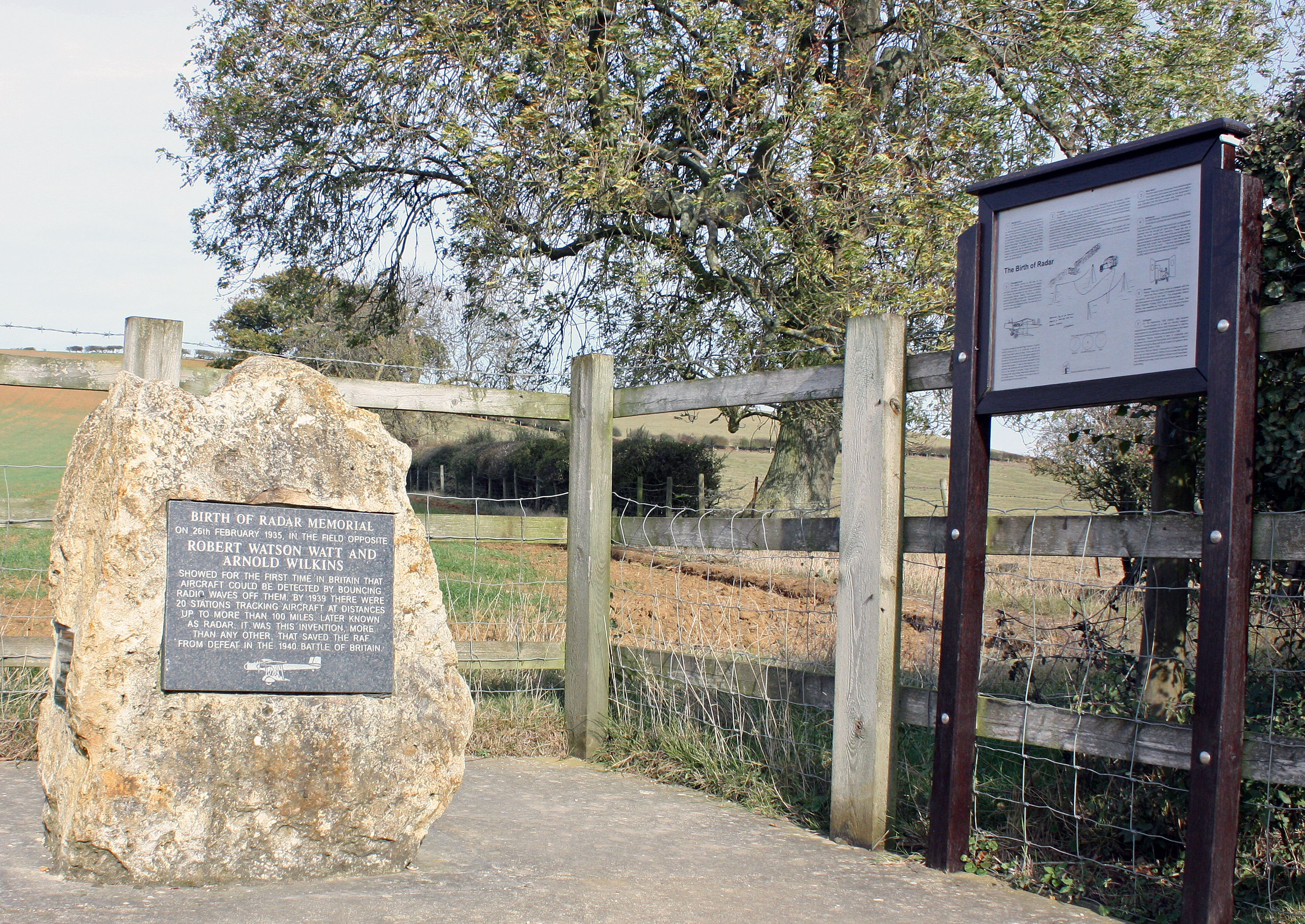 Radar Memorial marking the place where the concept was first tested, near Weedon Bec, Northamptonshire, England